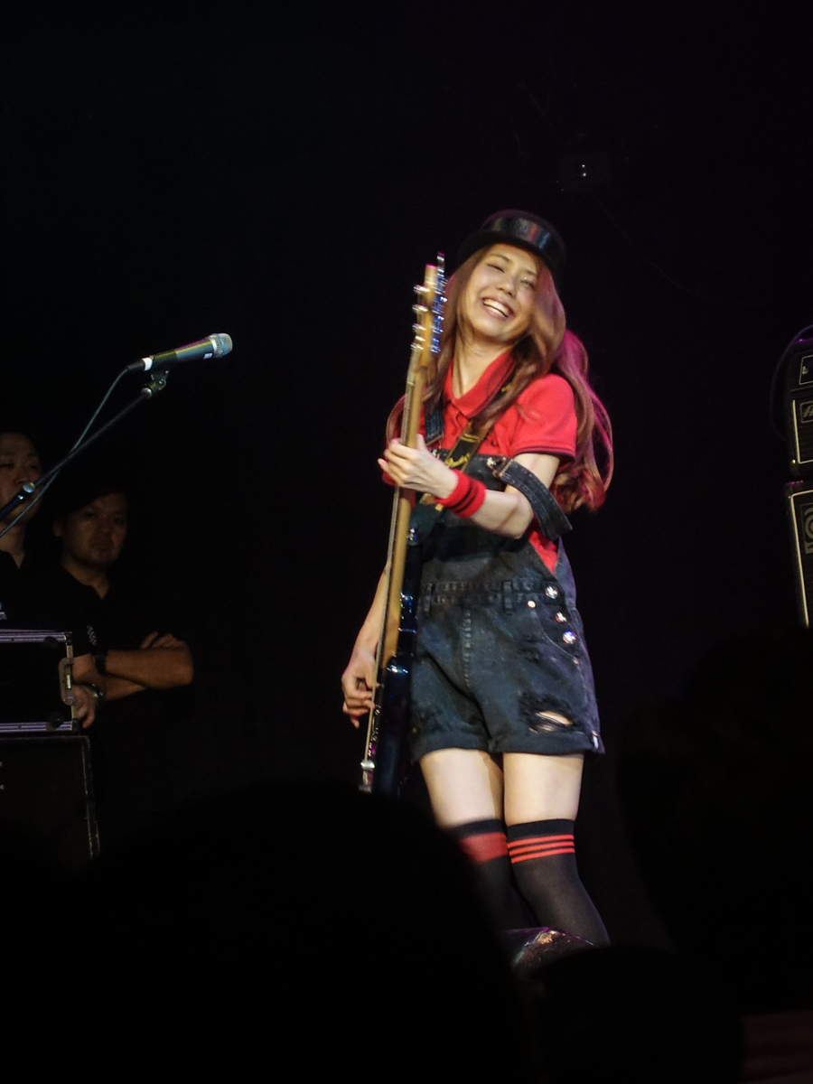 SCANDAL